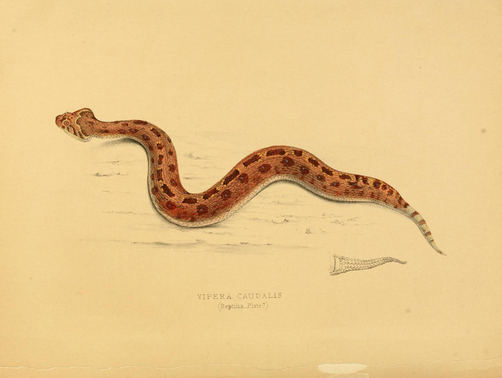 p fin I— i